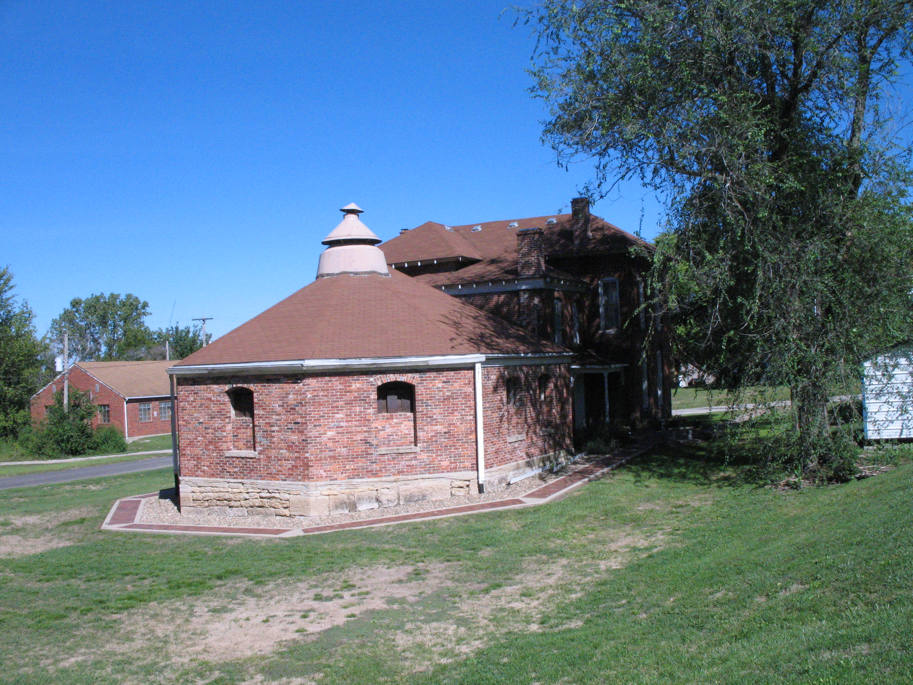 Rotary Jail at Gallatin. Photo by poster in September 2007. Category:Images of Missouri